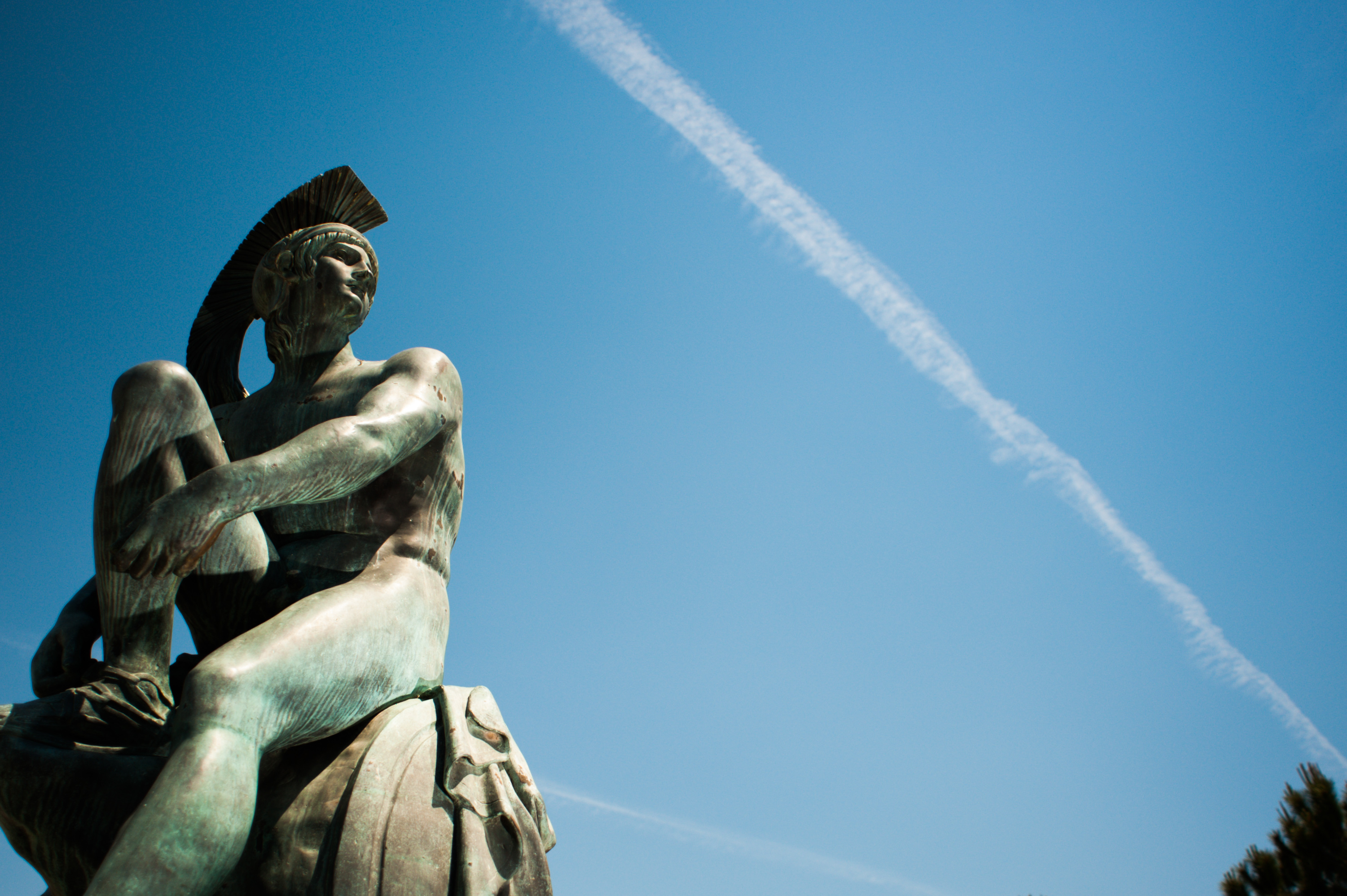 Statue of Theseus, Thiseion neighbourhood, Athens. Greece.